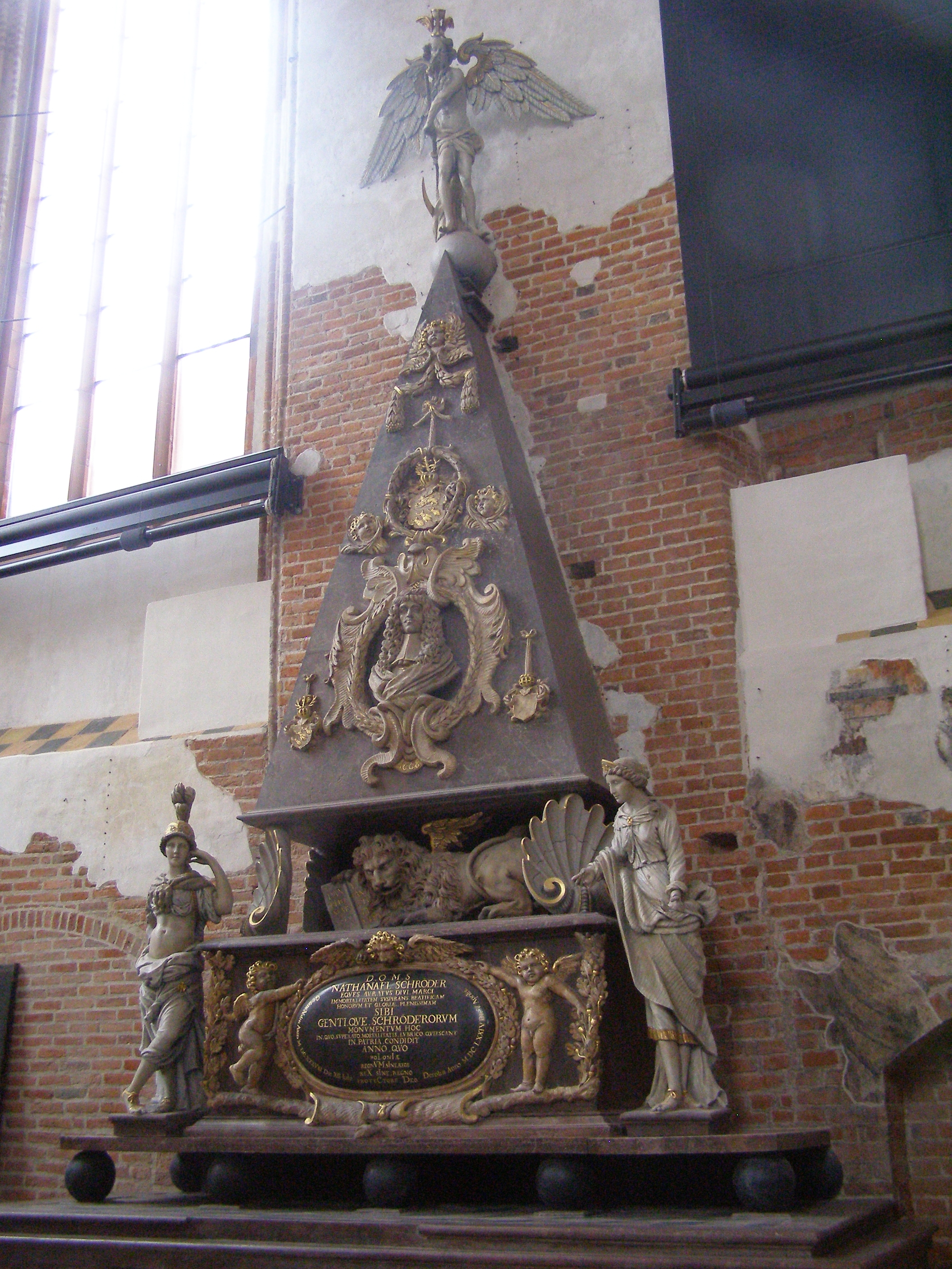 Gdańsk - St. John's church